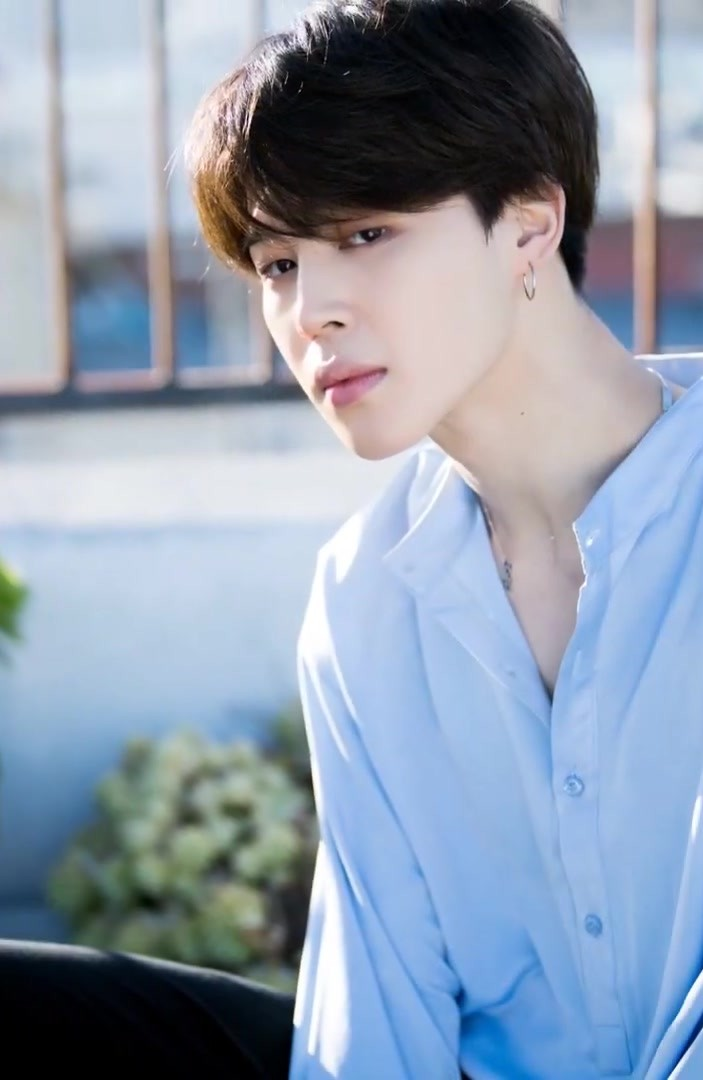 Jimin for BTS 5th anniversary party in LA photoshoot by Dispatch, May 2018